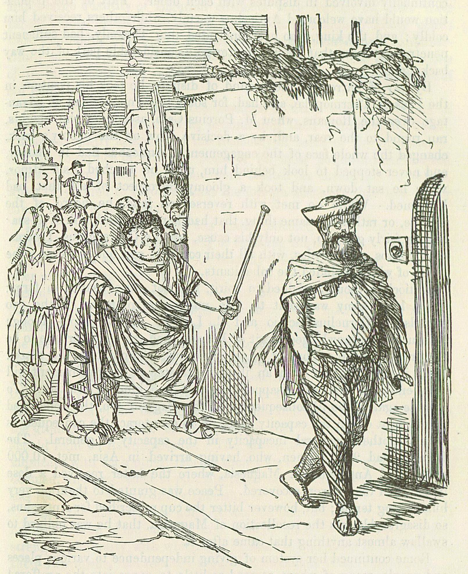 Image by John Leech, from: The Comic History of Rome by Gilbert Abbott A Beckett. Bradbury, Evans & Co, London, 1850s Hannibal leads the Ambassadors rather a fatiguing Walk round Carthage